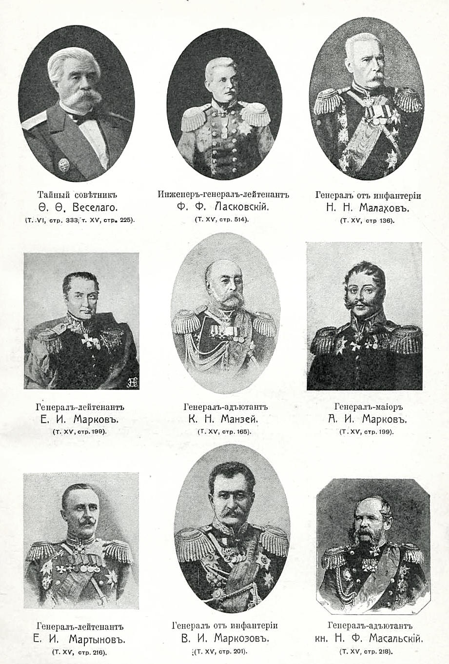 Generals of the Russian Empire